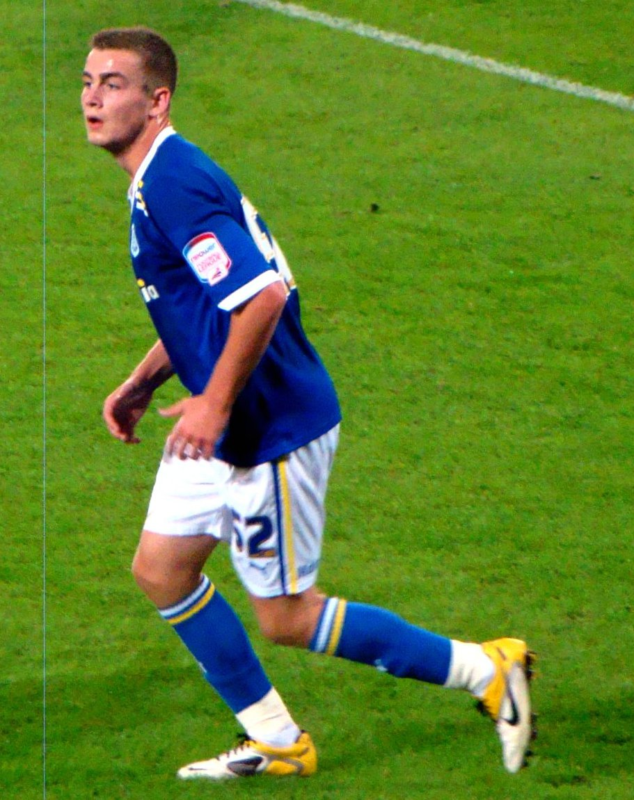 23/08/11 Cardiff V Huddersfield, League Cup 2nd Round, Cardiff City Stadium, Cardiff, Wales